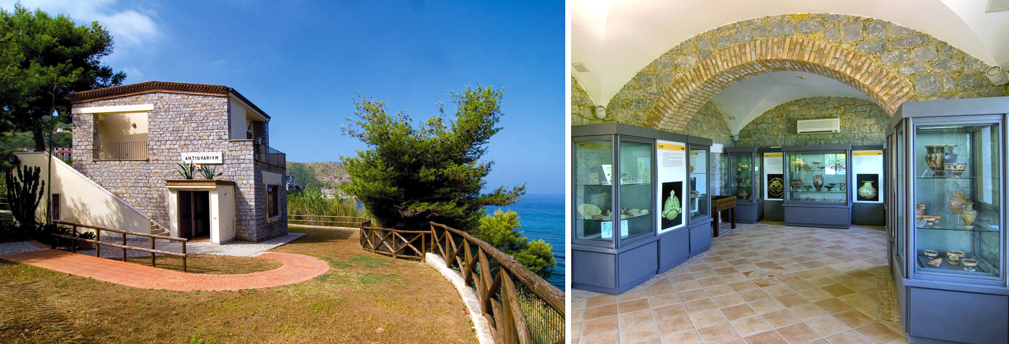 Antiquarium of Palinuro: external (left) and inside (right).